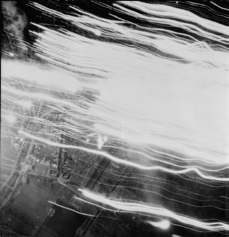 Royal Air Force Bomber Command, 1942-1945. Vertical aerial photograph taken during Operation MILLENNIUM, the 'Thousand-bomber' raid on Cologne, Germany 30/31 May 1942. The tracks of a mass of concentrated searchlights and tracer bullets from anti-aircraft fire cover the larger area of the picture as the first bombs explode on the city (lower left).